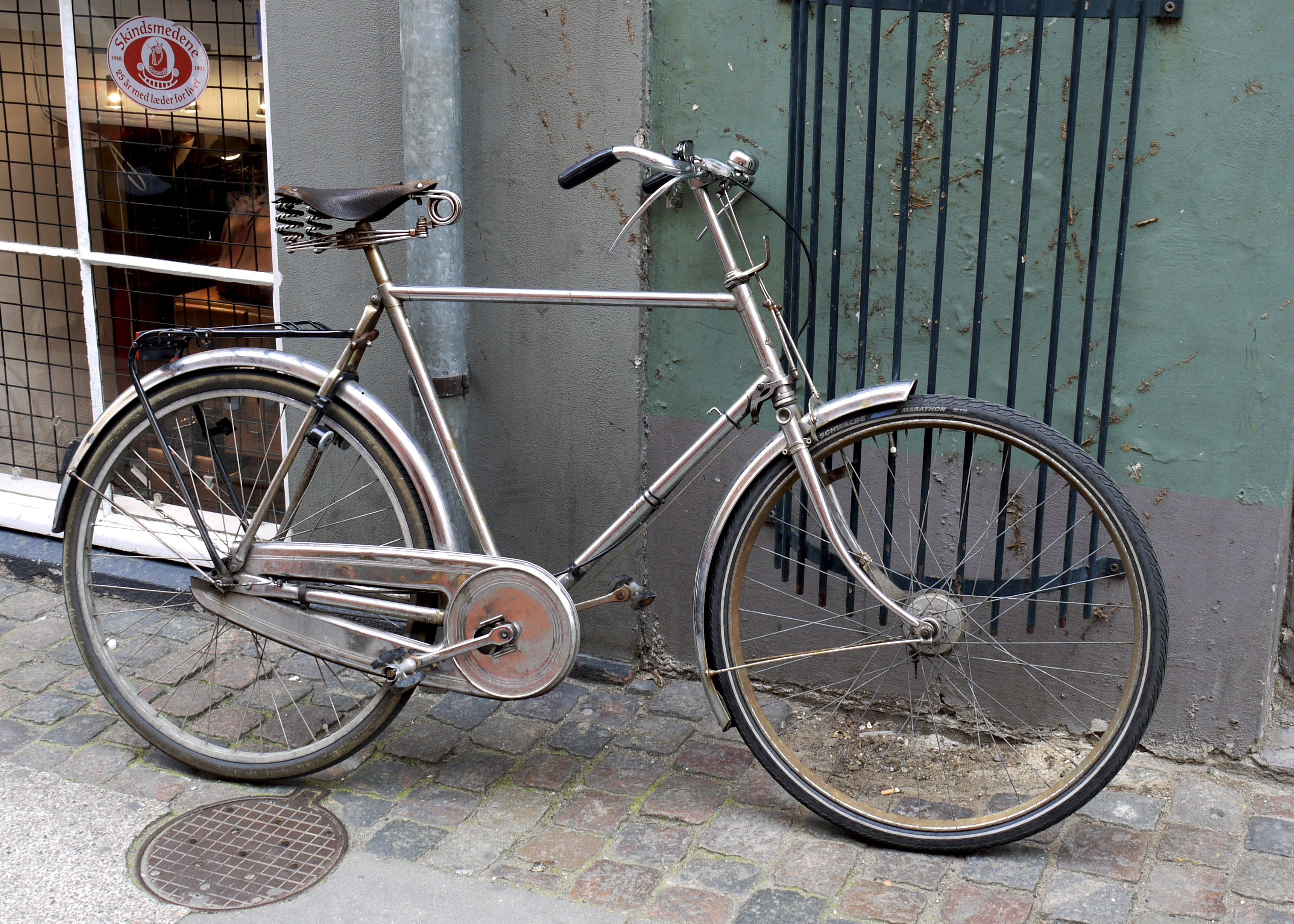 Silver Bicycle in Copenhagen